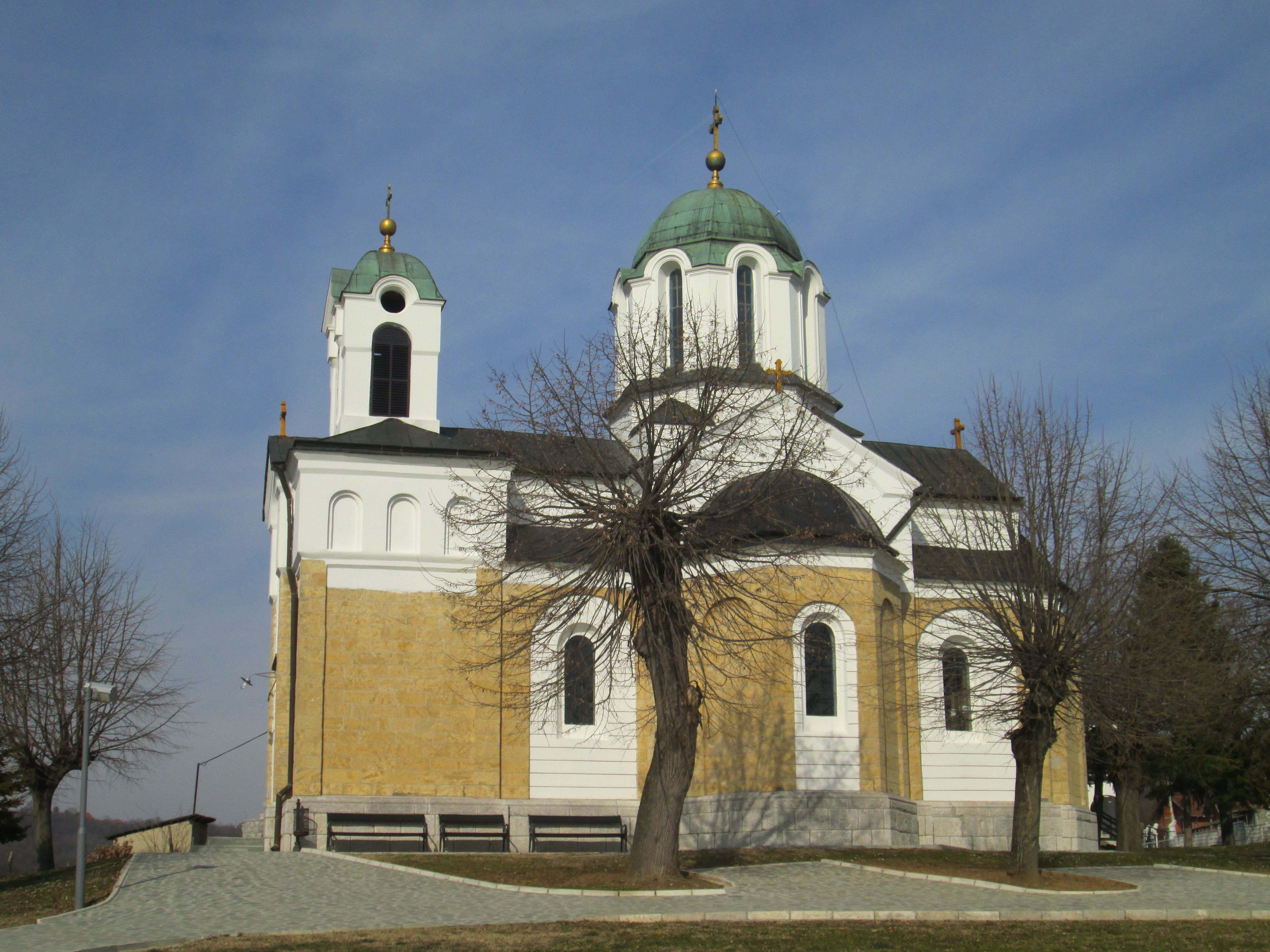 St. Constantine and Helen Church, Vlaška Српски (ћирилица): Црква Св. Константина и Јелене, Влашка